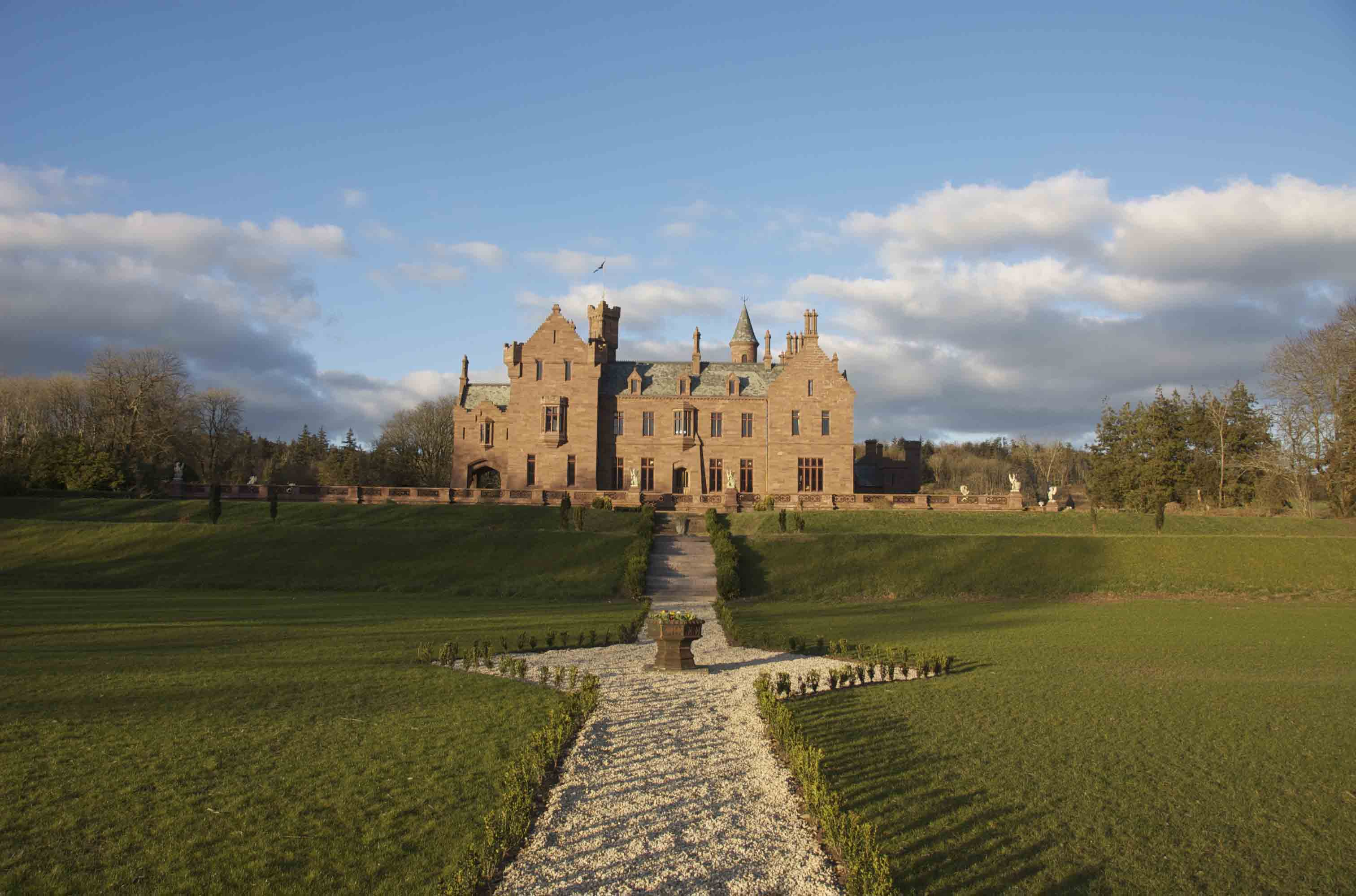 Castle Oliver (also sometimes known as Clonodfoy) is a castle in the south part of County Limerick, Ireland.